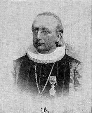 Johan Christian Heuch, Norwegian bishop d.1904